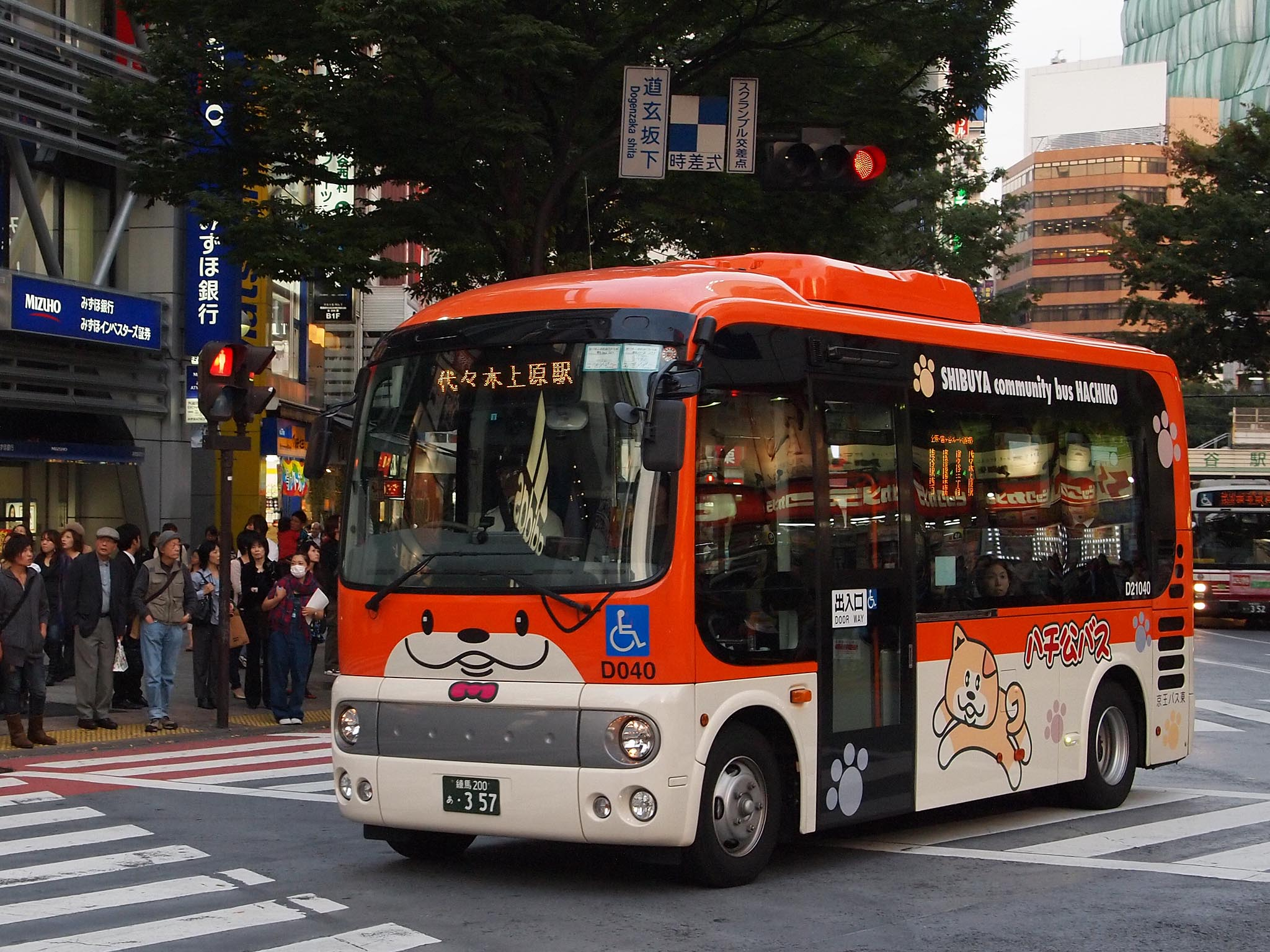 Fleet of Keio Bus Higashi, for "Hachiko Bus" since 2010. Model: Hino Poncho HX6JHAE License plate: TKN200 A-357 Place: Dogenzaka, Shibuya Ward, Tokyo Japan